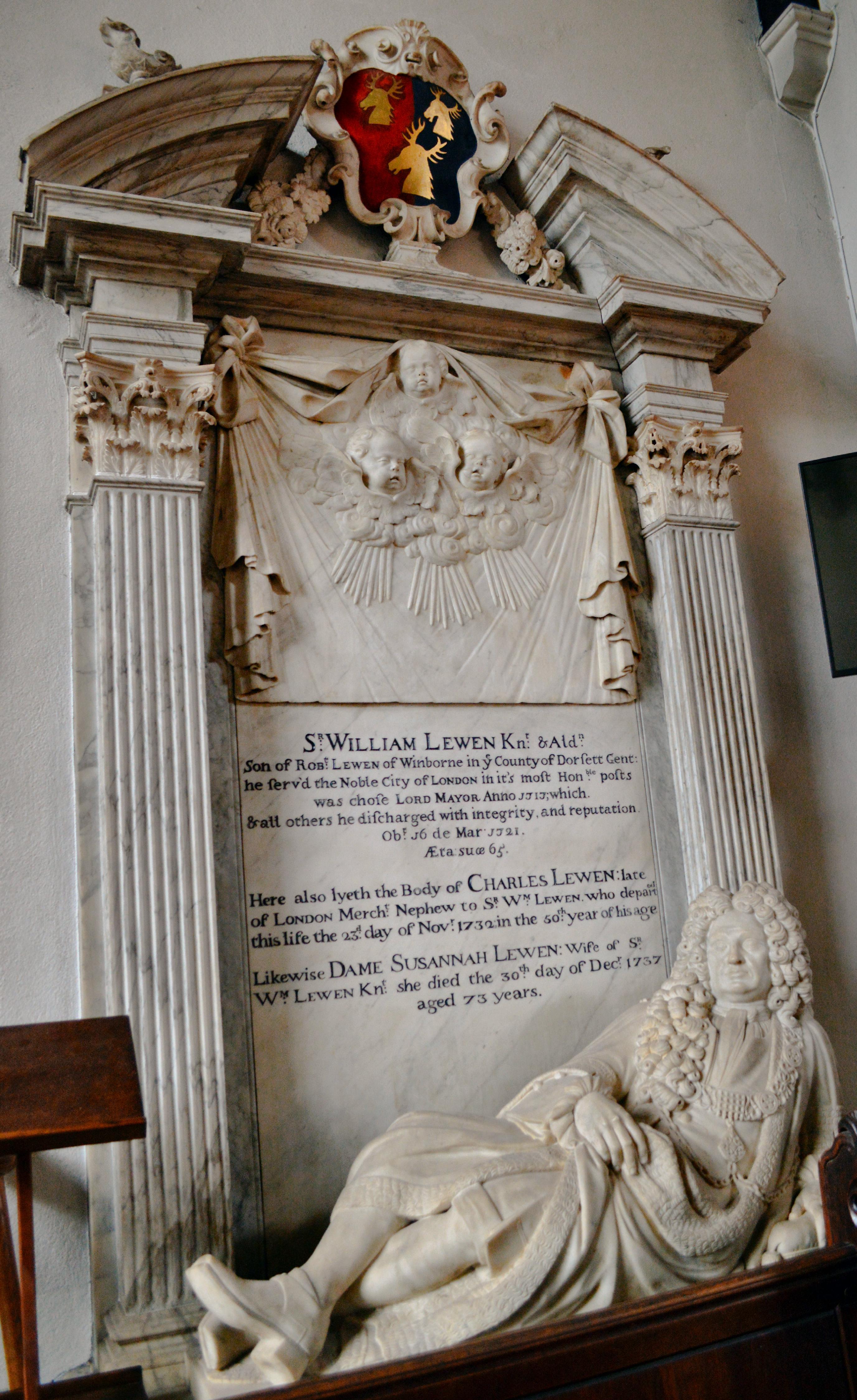 St Mary's Church, Ewell, William Lewen memorial